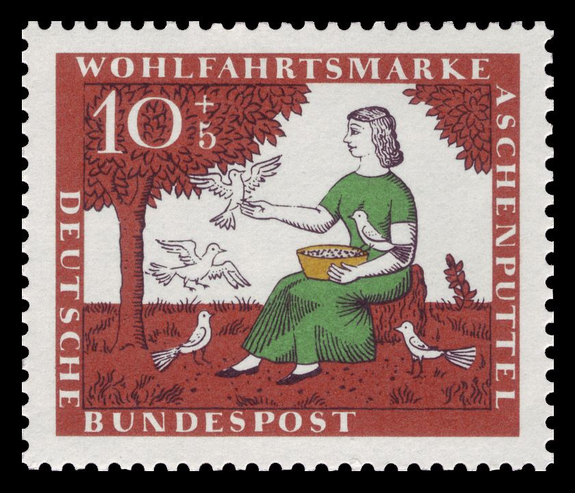 series for social welfare 1965, fairy tale of the brothers Grimm, Cinderella